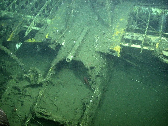 From the wreckage of the USS Macon, a view of the Curtiss Sparrowhawk F9C-2 cockpit with telescopic gun site located in the center of the fuselage right above the cockpit.